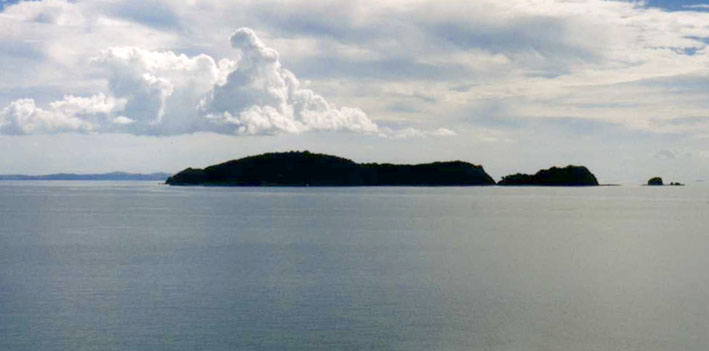 The Motukawao Islands seen from Coromandel Peninsula. Photograph taken from Amodeo Bay in February 2000 by James Dignan.